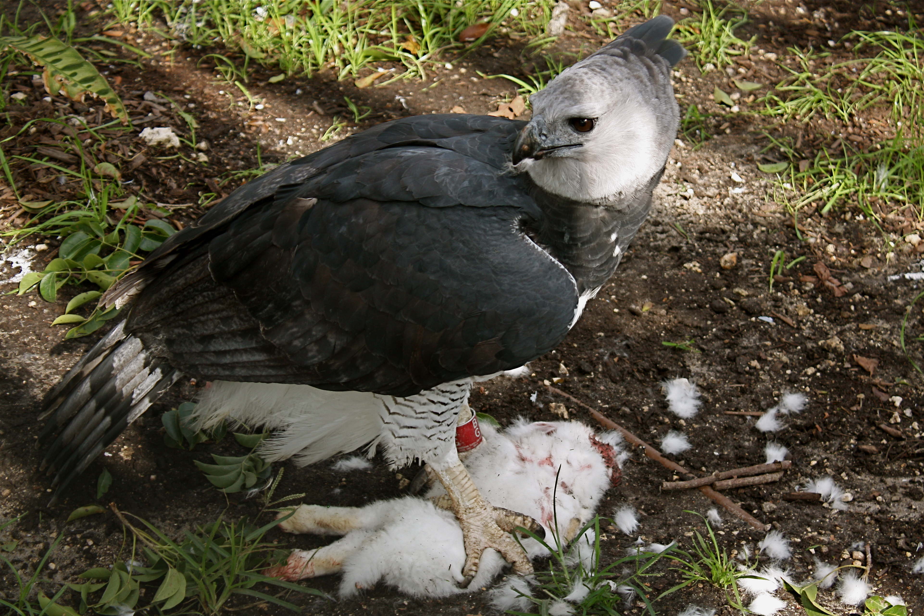 An adult Harpy Eagle feeding at Miami Metrozoo, USA.